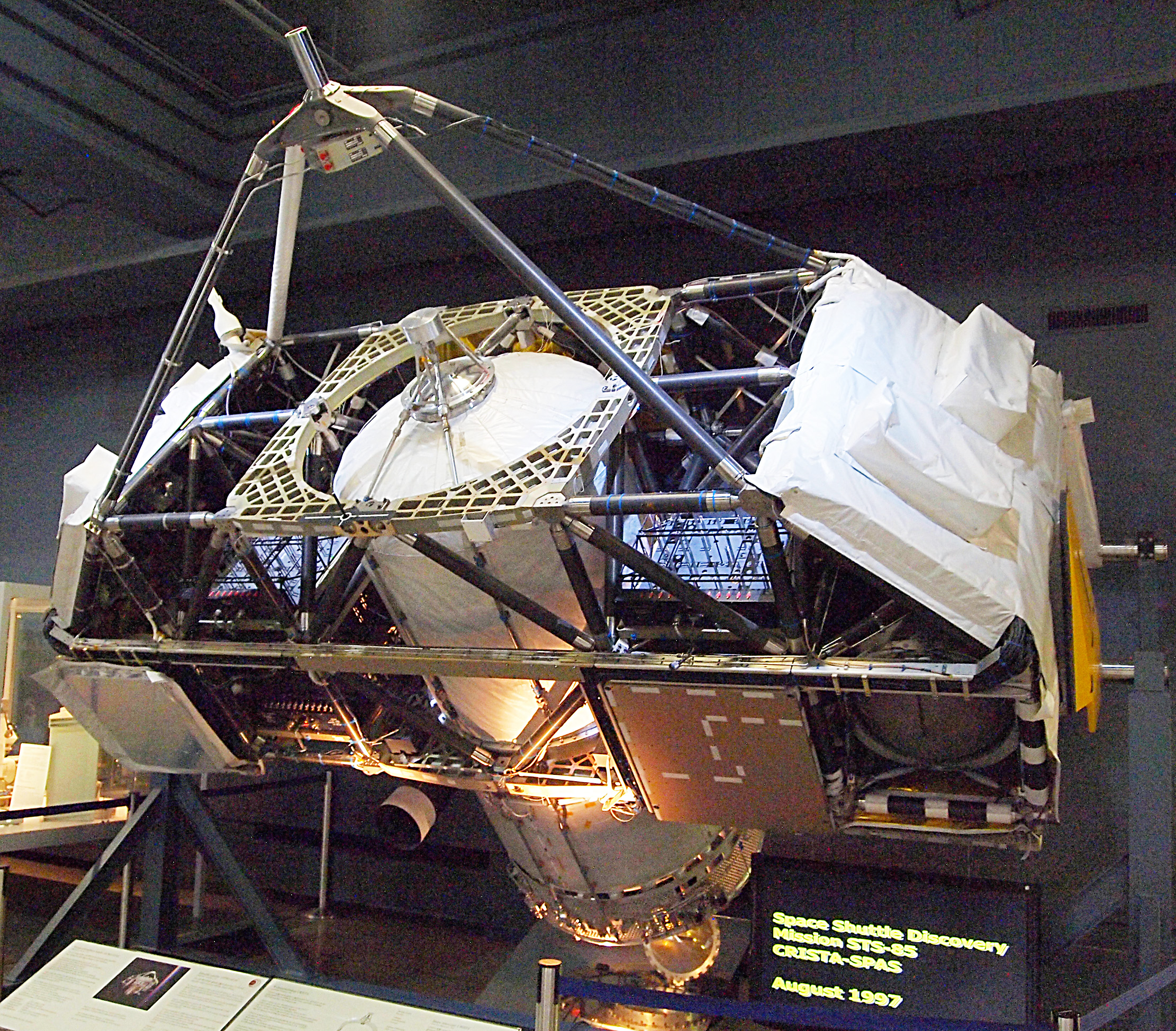 ASTRO SPAS satellite in Deutsches Museum. This photograph was taken with a Olympus E-PL1.